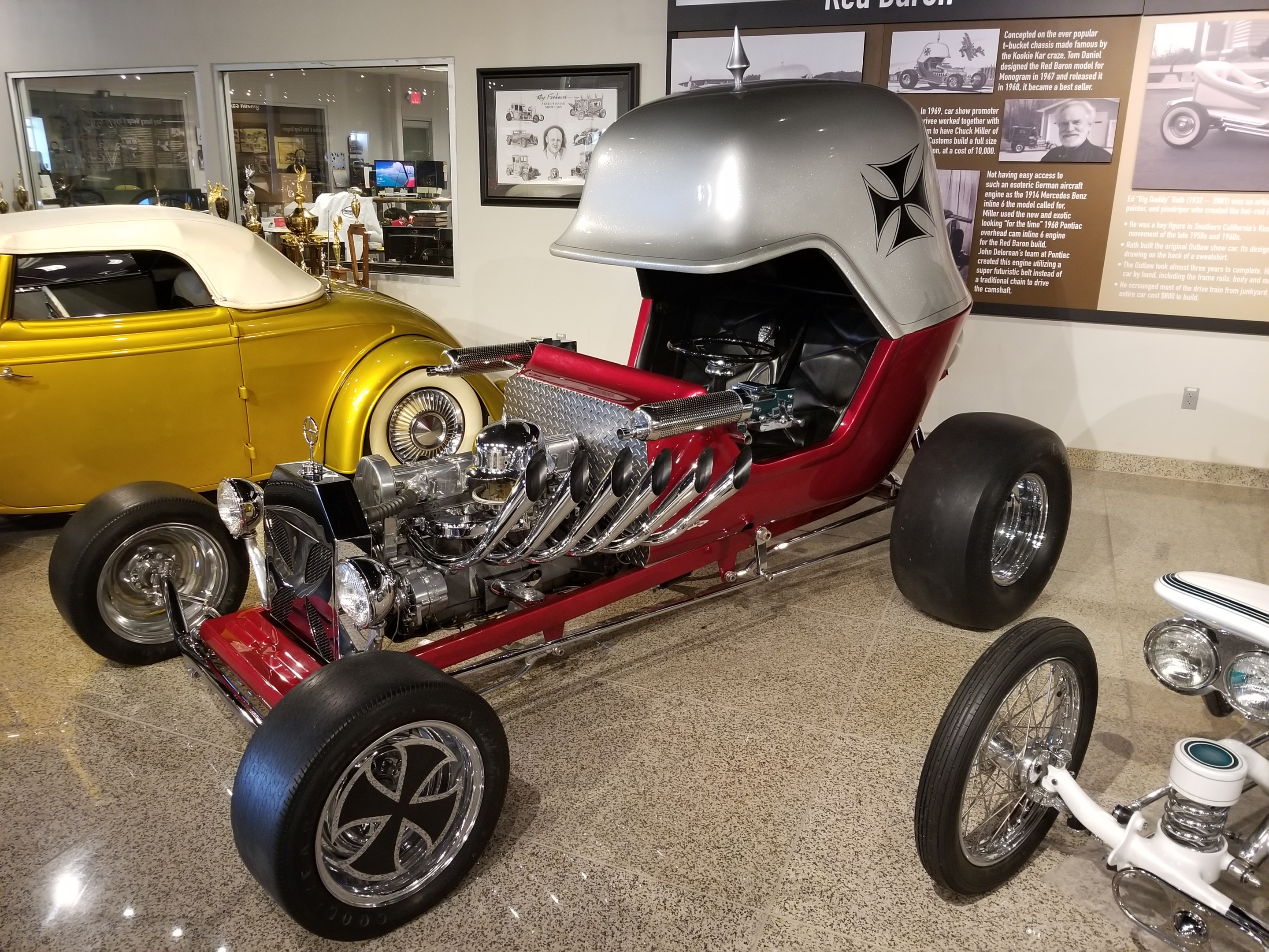 The full size Red Baron custom car on display at the Museum of American Speed in Lincoln, Nebraska.